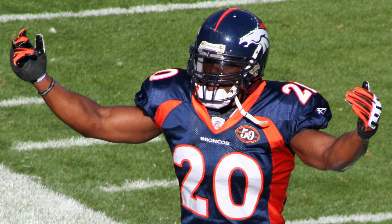 Brian Dawkins, a player on the Denver Broncos American football team.